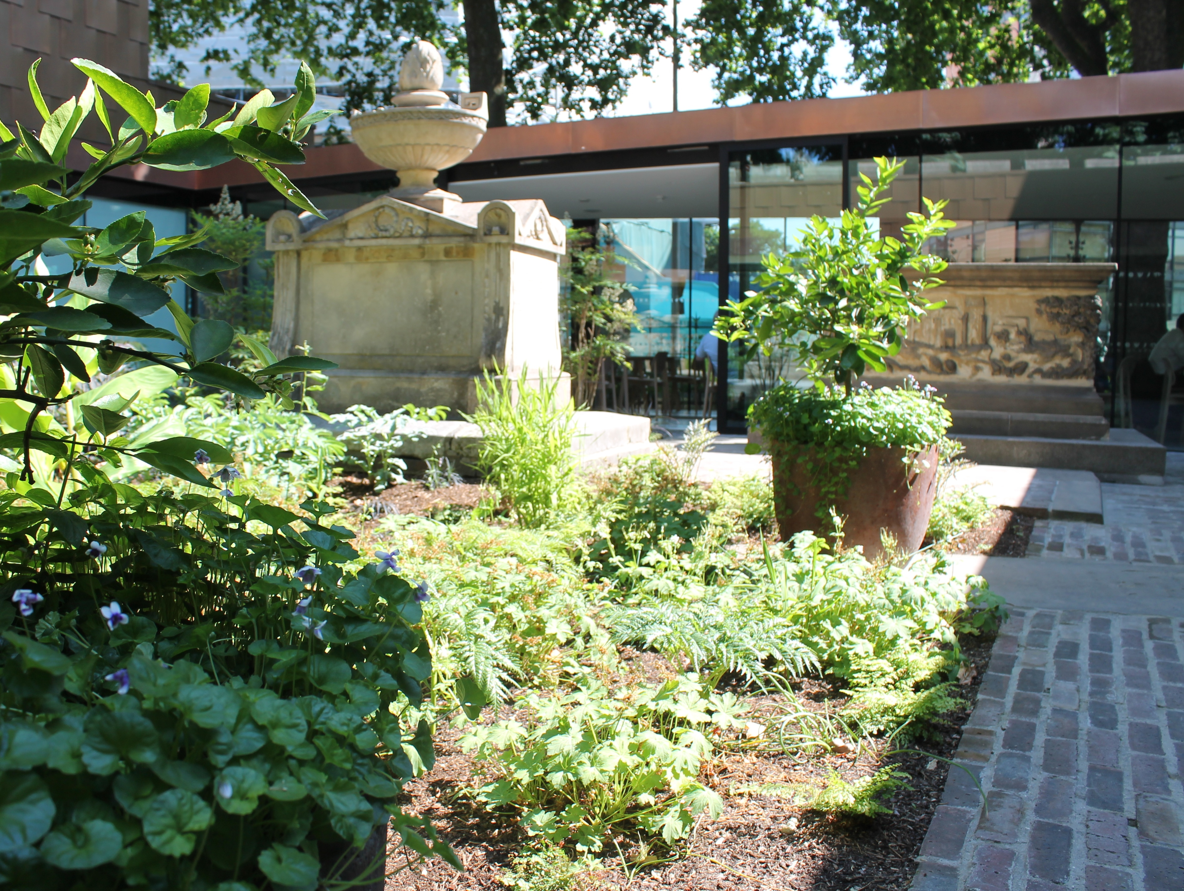 The tombs of Captain Bligh and John Tradescant in the Sackler Garden at the Garden Museum